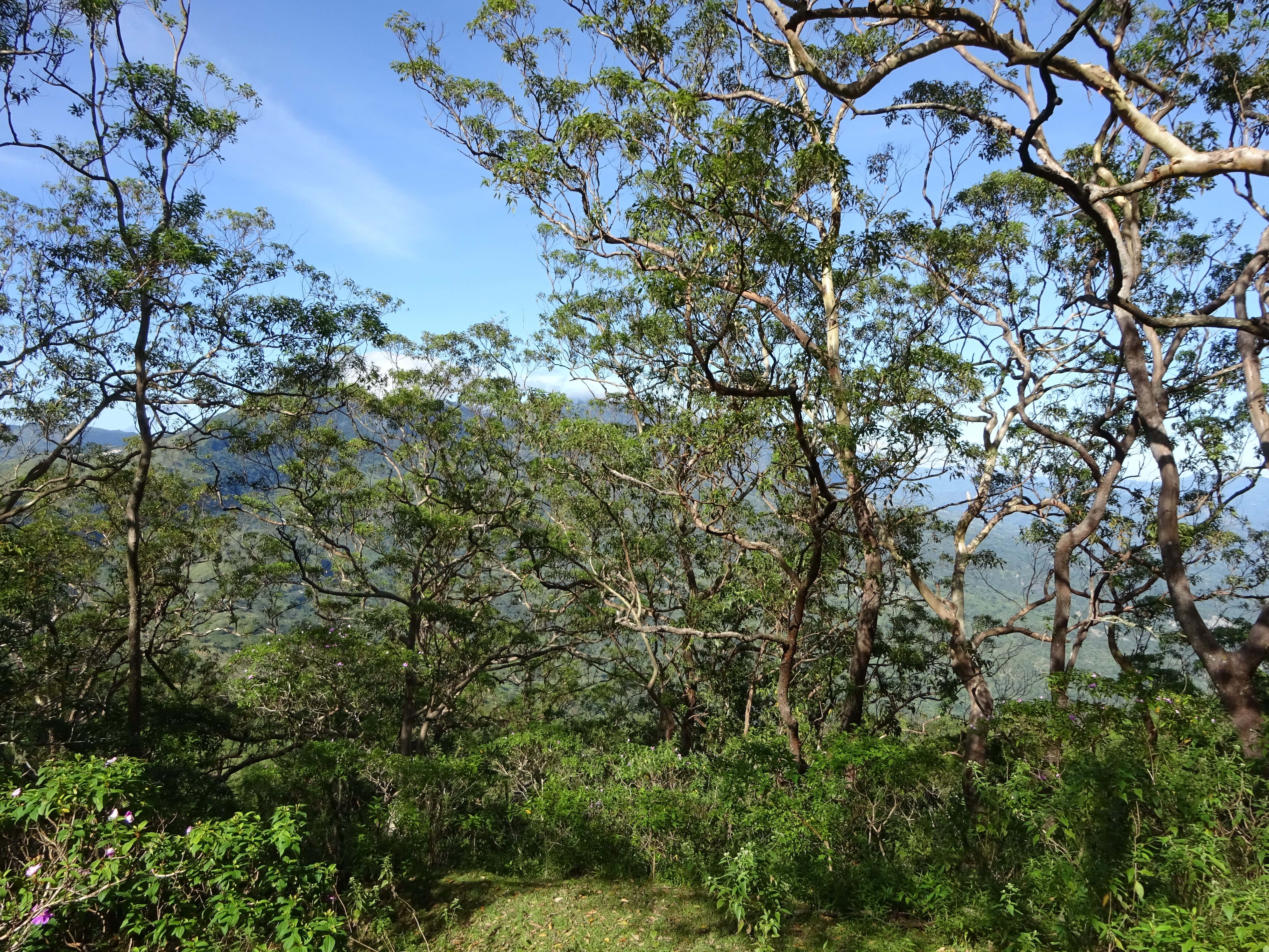 A view to the west from the slopes of Mt Coelaco, at around 1,100 m, with endemic Eucalyptus urophylla forest on the slopes